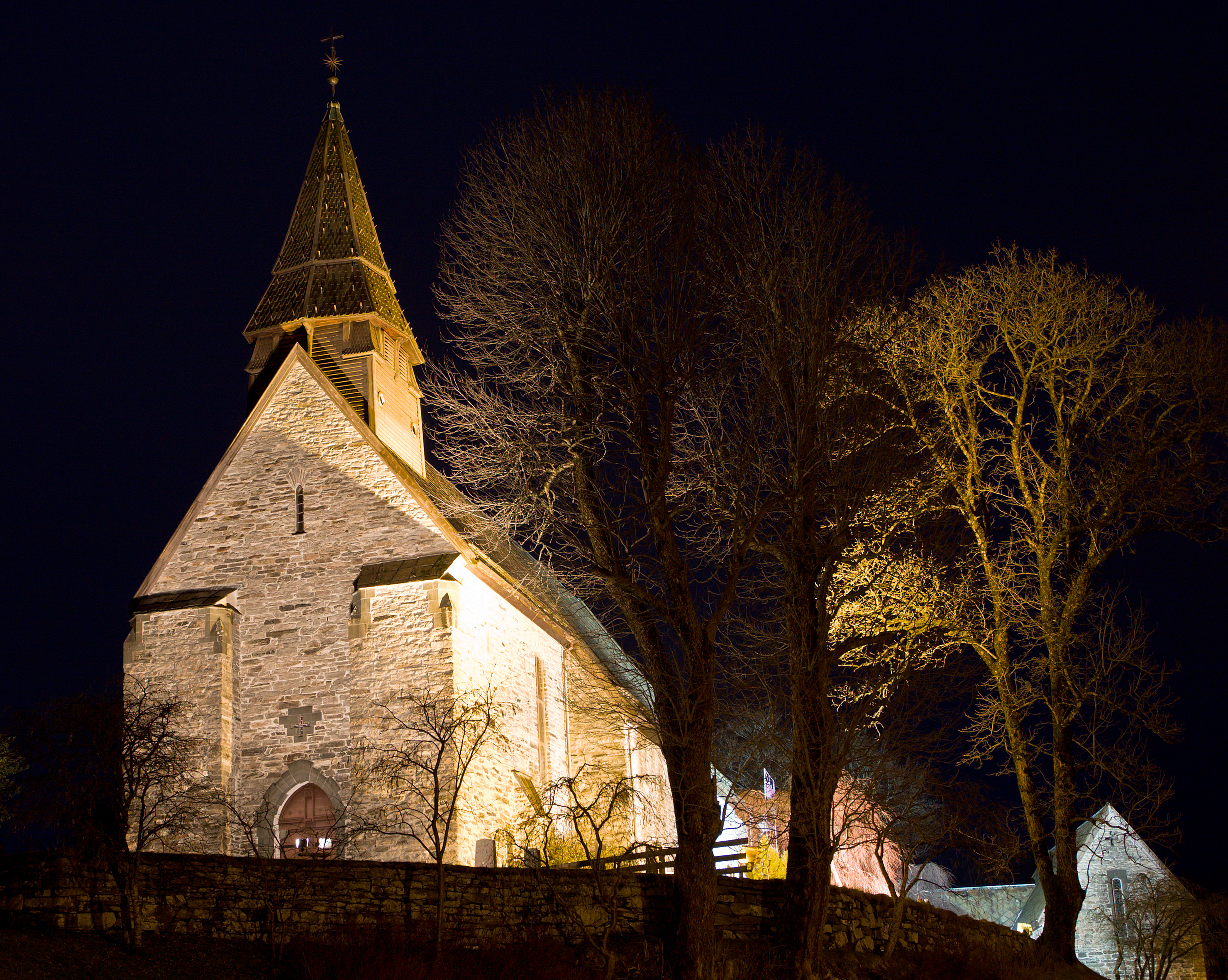 Fana Church in Bergen municipial, Norway.